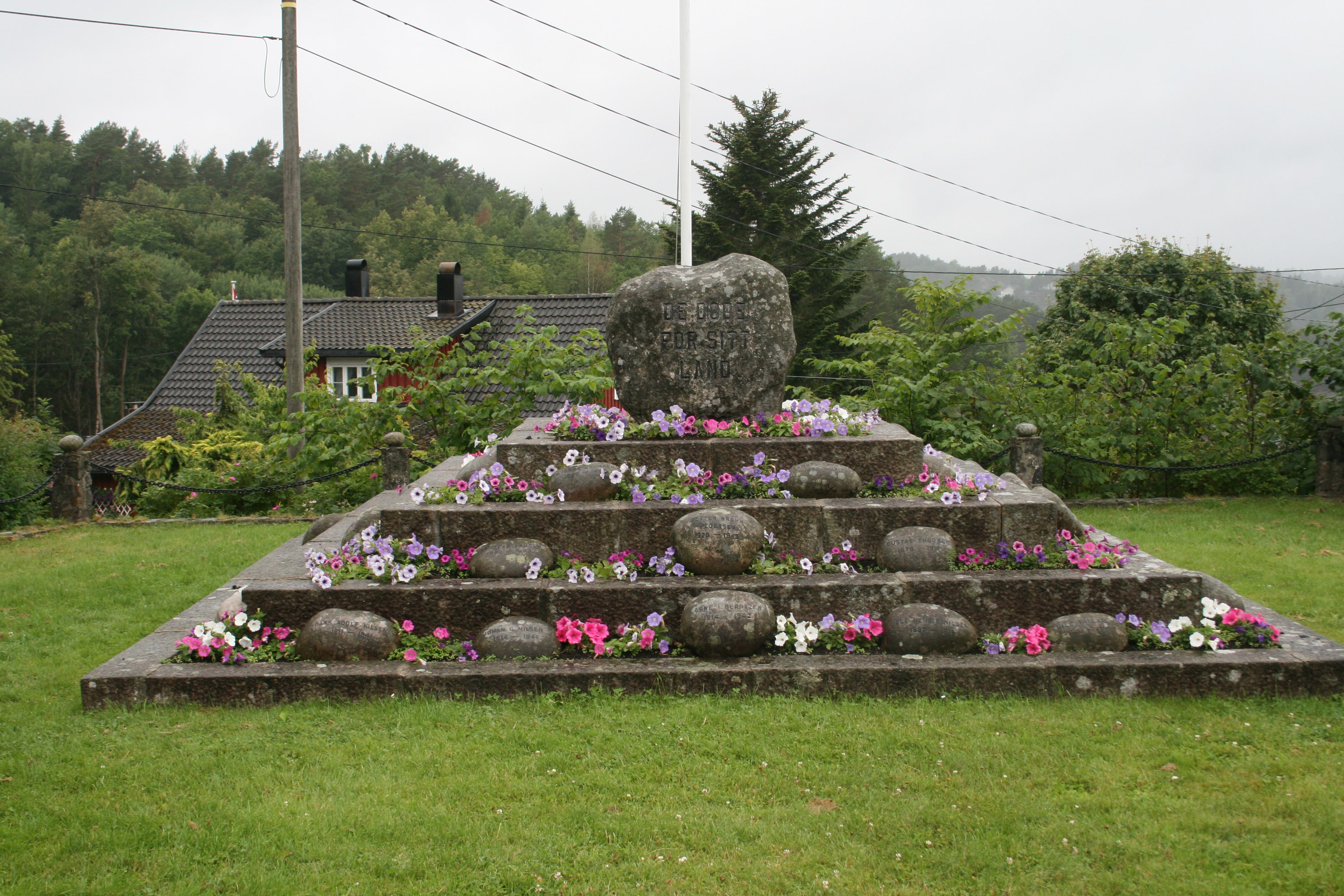 Flosta church in Arendal municipalty in Norway. Erected 17th century; rebuilt 1747 and 1864; restored 1971. Memorial over victims of WWI and WWII.